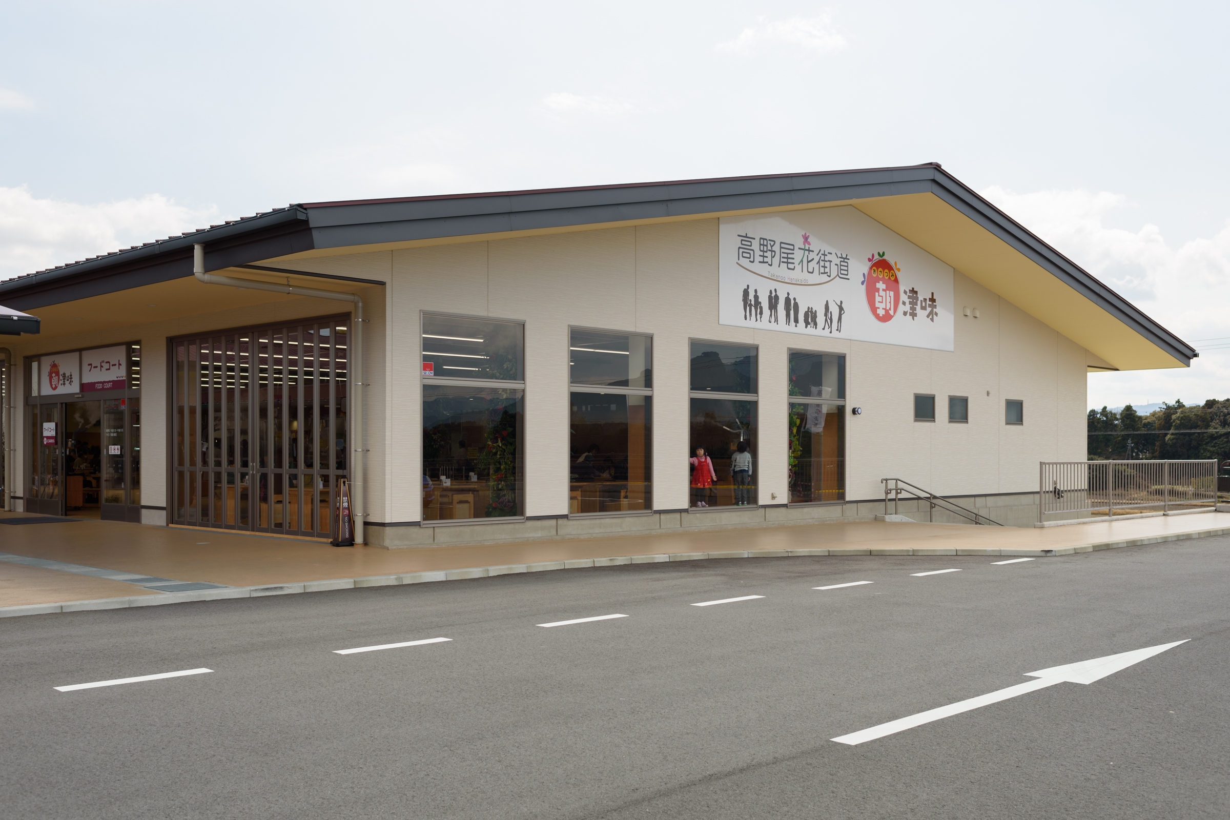 Asatsumi, Takanoo-cho, Tsu, Mie